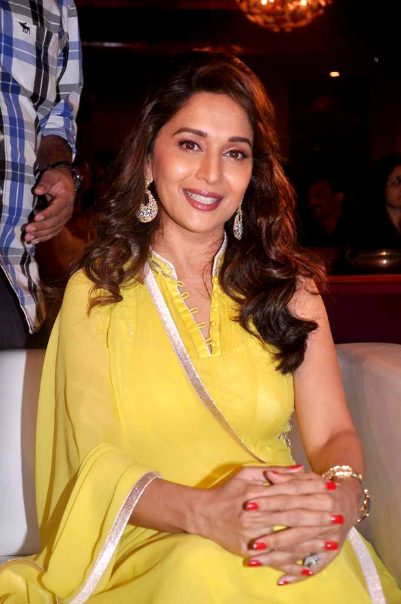 Madhuri at the launch of 'Its Only Cinema' magazine